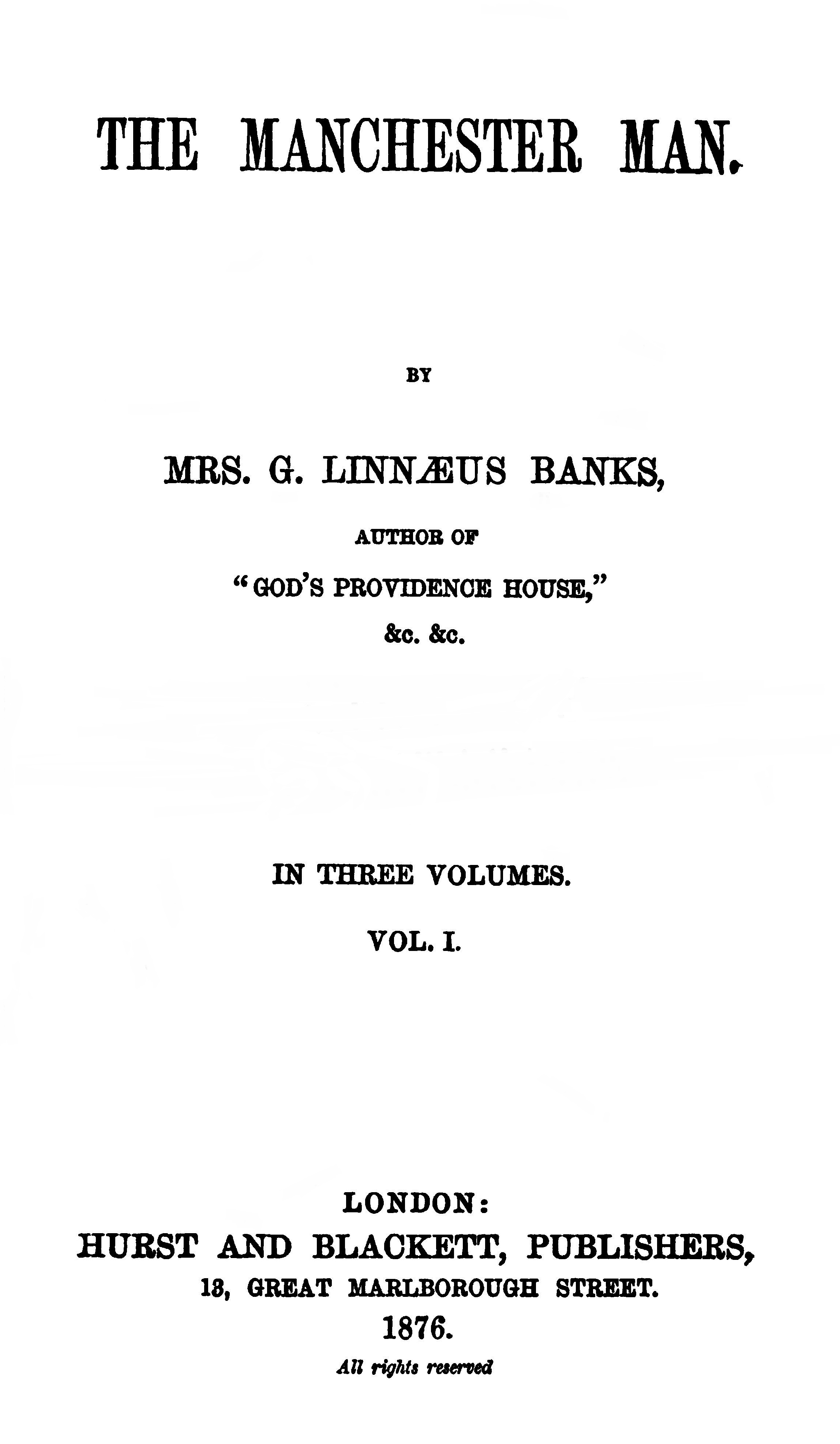 The Manchester Man 1st ed tp